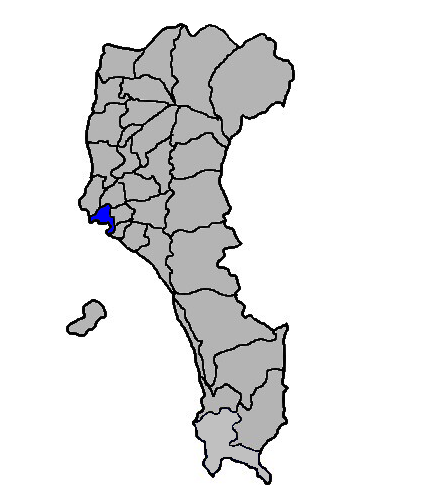 Map showing location of Donggang Town, Taiwan.